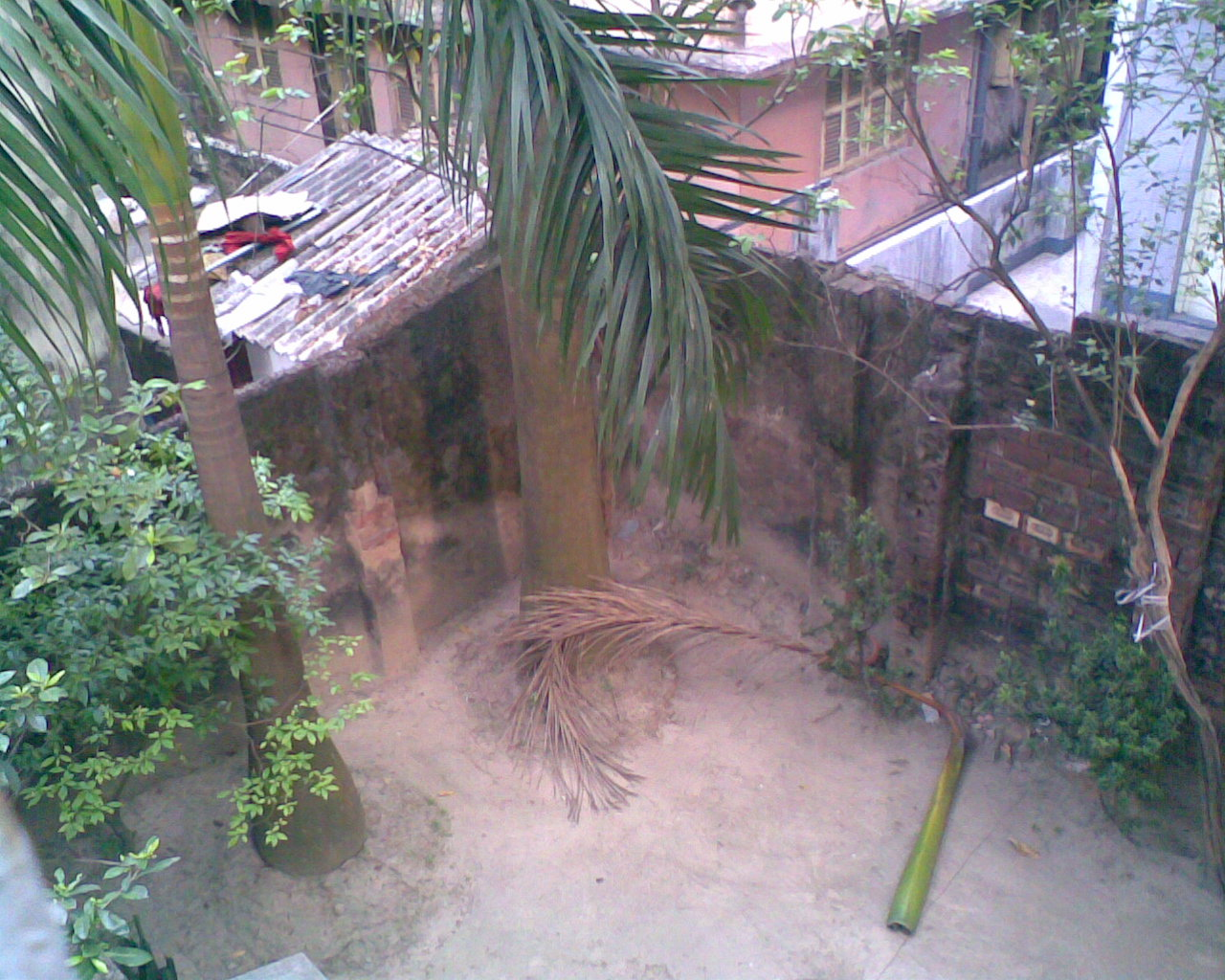 Roystonea regia with freshly fallen leaf